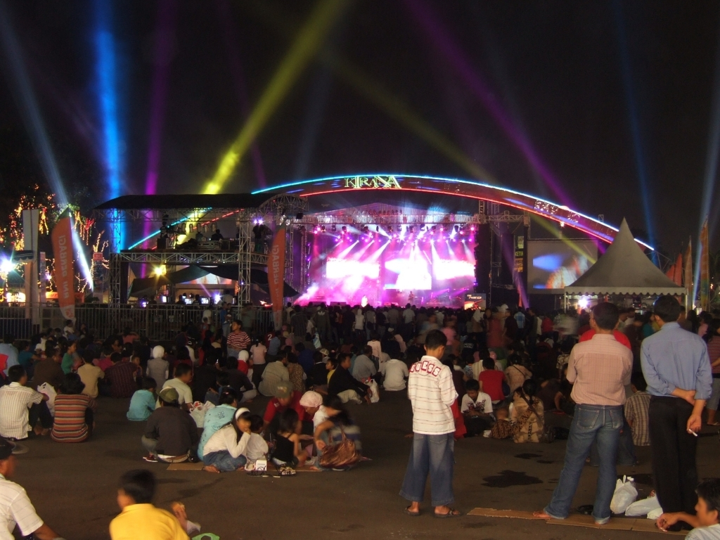 Kirana stage (live stage), Jakarta Fair 2007